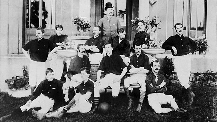 The squad of Royal Arsenal FC in 1888. From left to right: Front row: Morris, Babour, Charteris Seated: Brown, Connolly, Danskin Standing: Horsington, Wilson, Beardsley, Bates (captain), McBean, Scott Back: Parr.